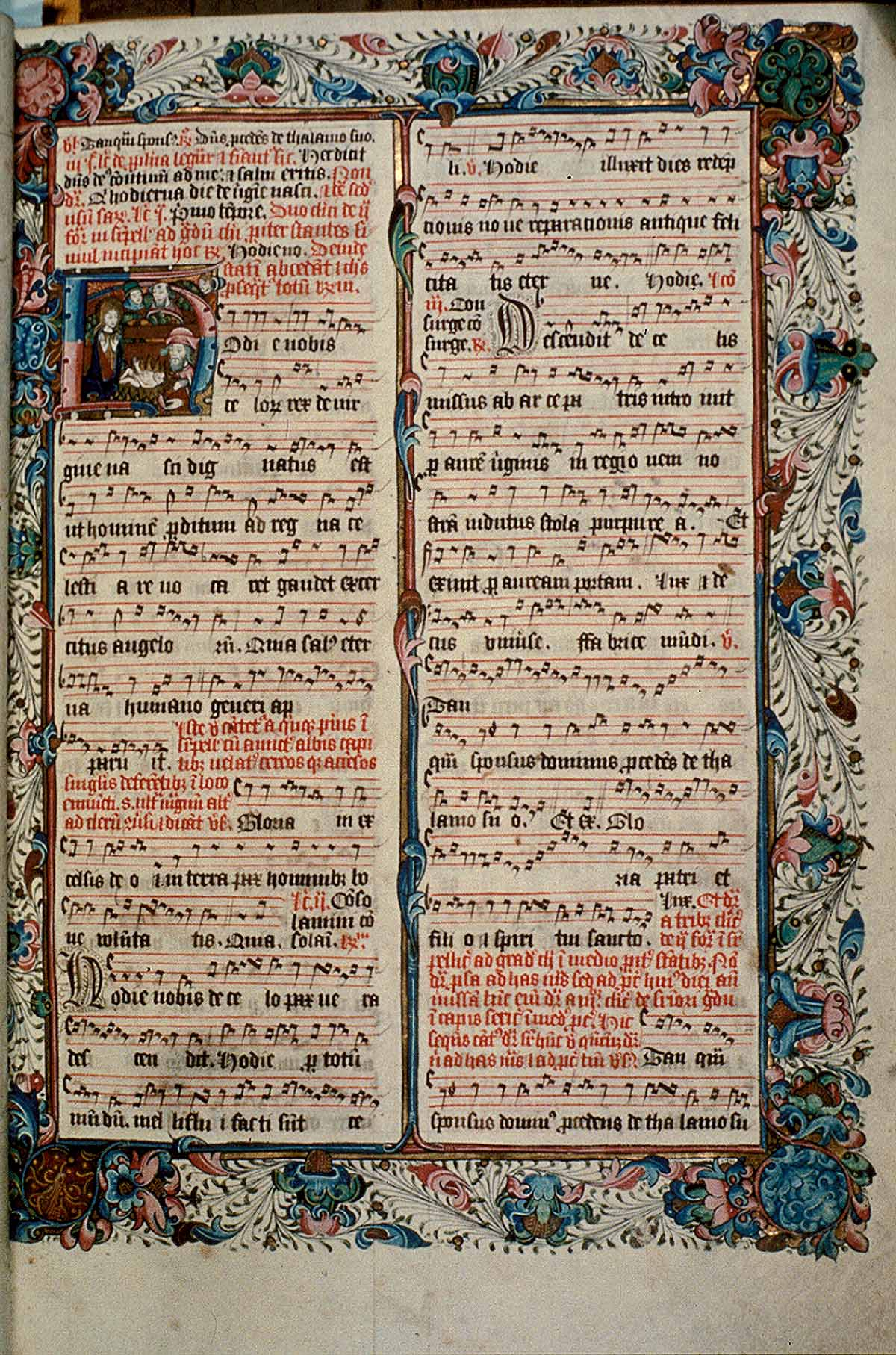 Image of Folio 22r from the Ranworth Antiphoner.